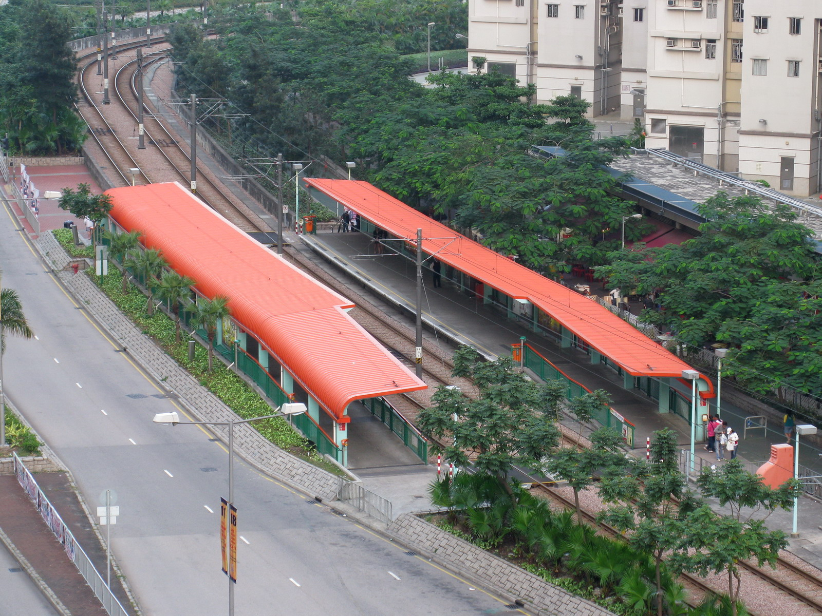 輕鐵 天恆站 Tin Heng Stop, Light Rail